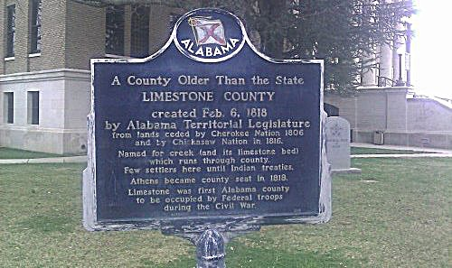 A picture of the historical marker on the north side of the Limestone County courthouse that explains the history of the county.